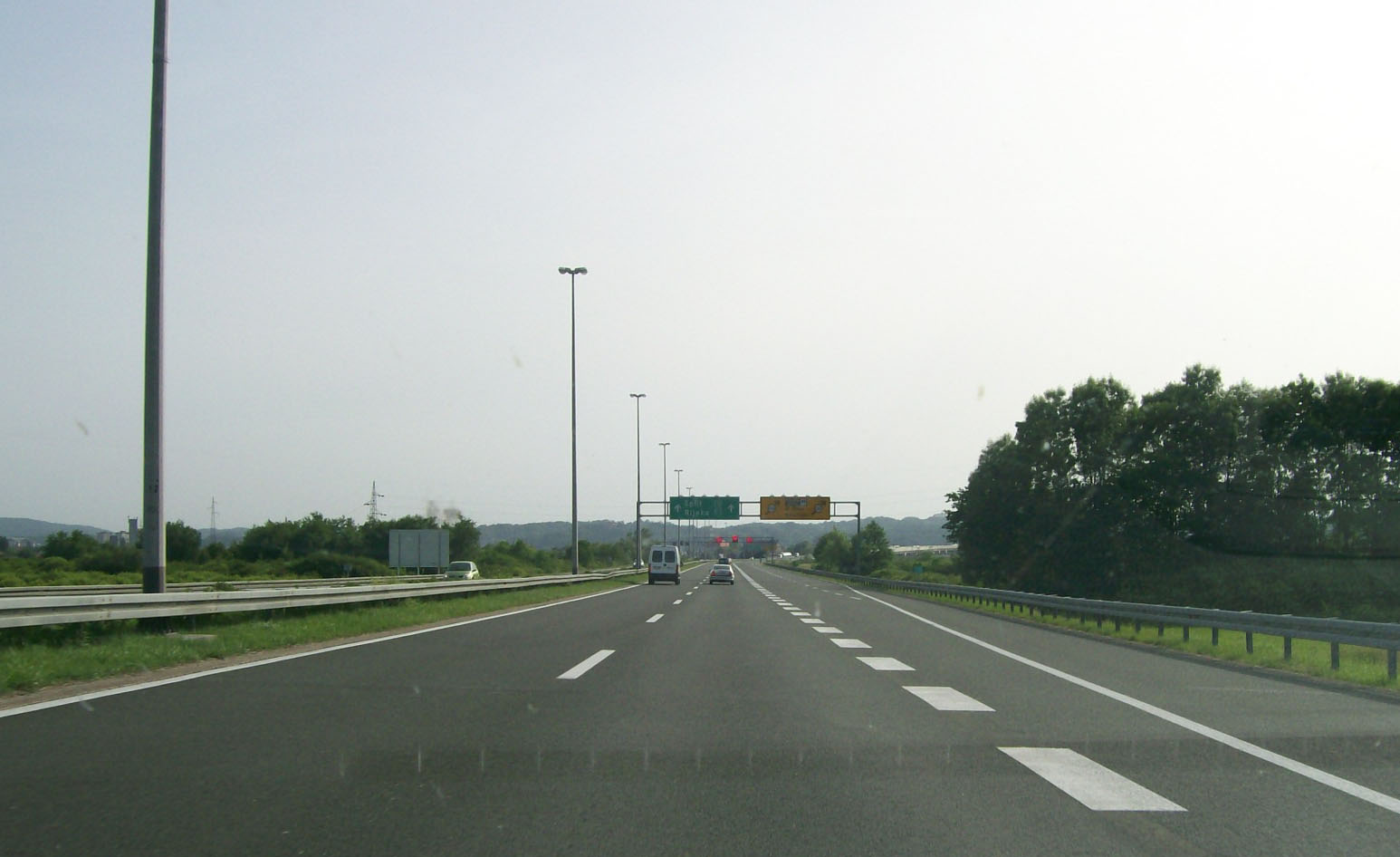 Highway A1 Zagreb-Karlovac, exit Karlovac